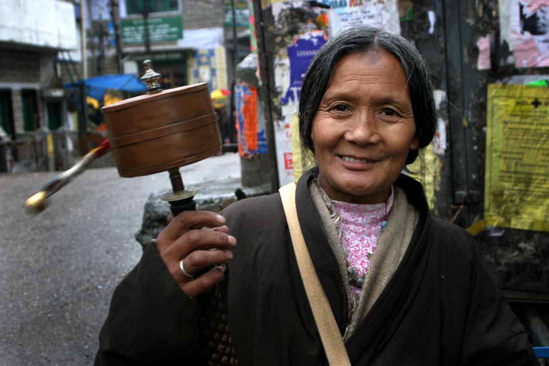 This follower of TIbetan Buddhism is holding a prayer wheel. The more she spins it, the more and higher the prayers go...